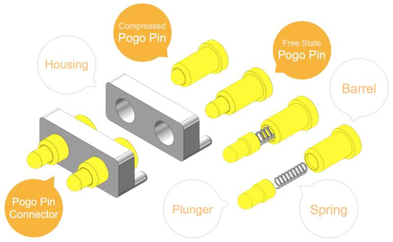 The picture describes the assembly of a standard pogo pin connector